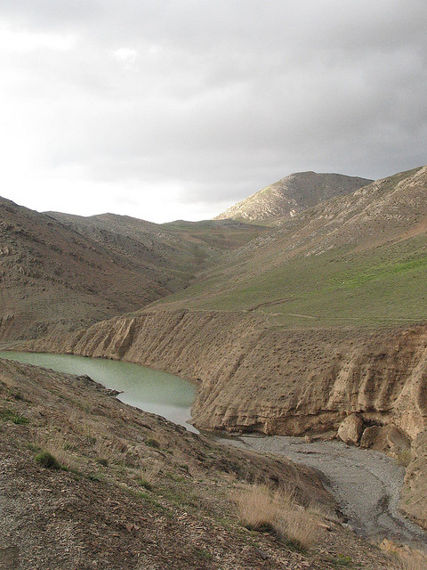 Modar dam